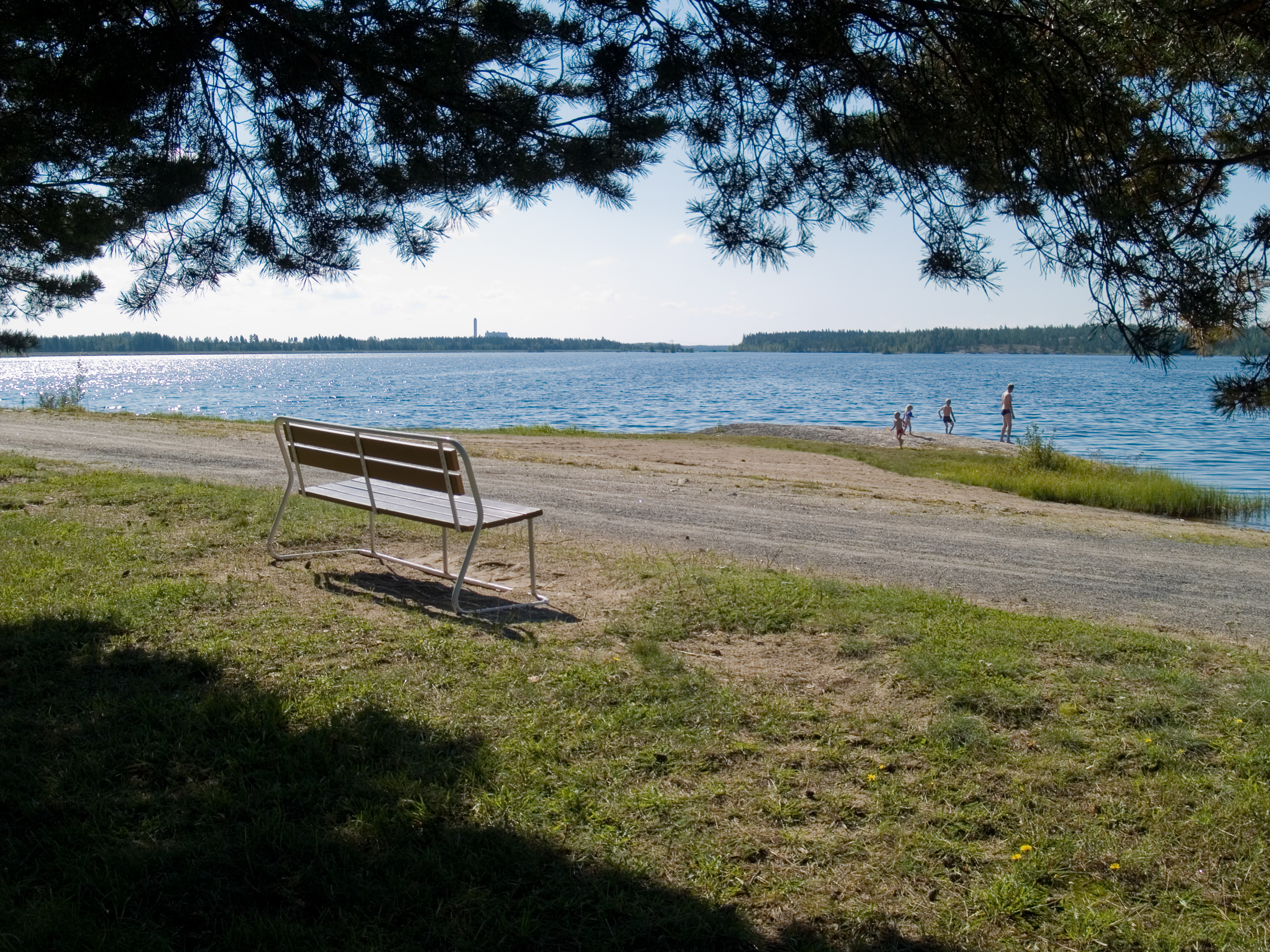 Beach by the Kyrkösjärvi reservoir in Huhtala, Seinäjoki, Finland.